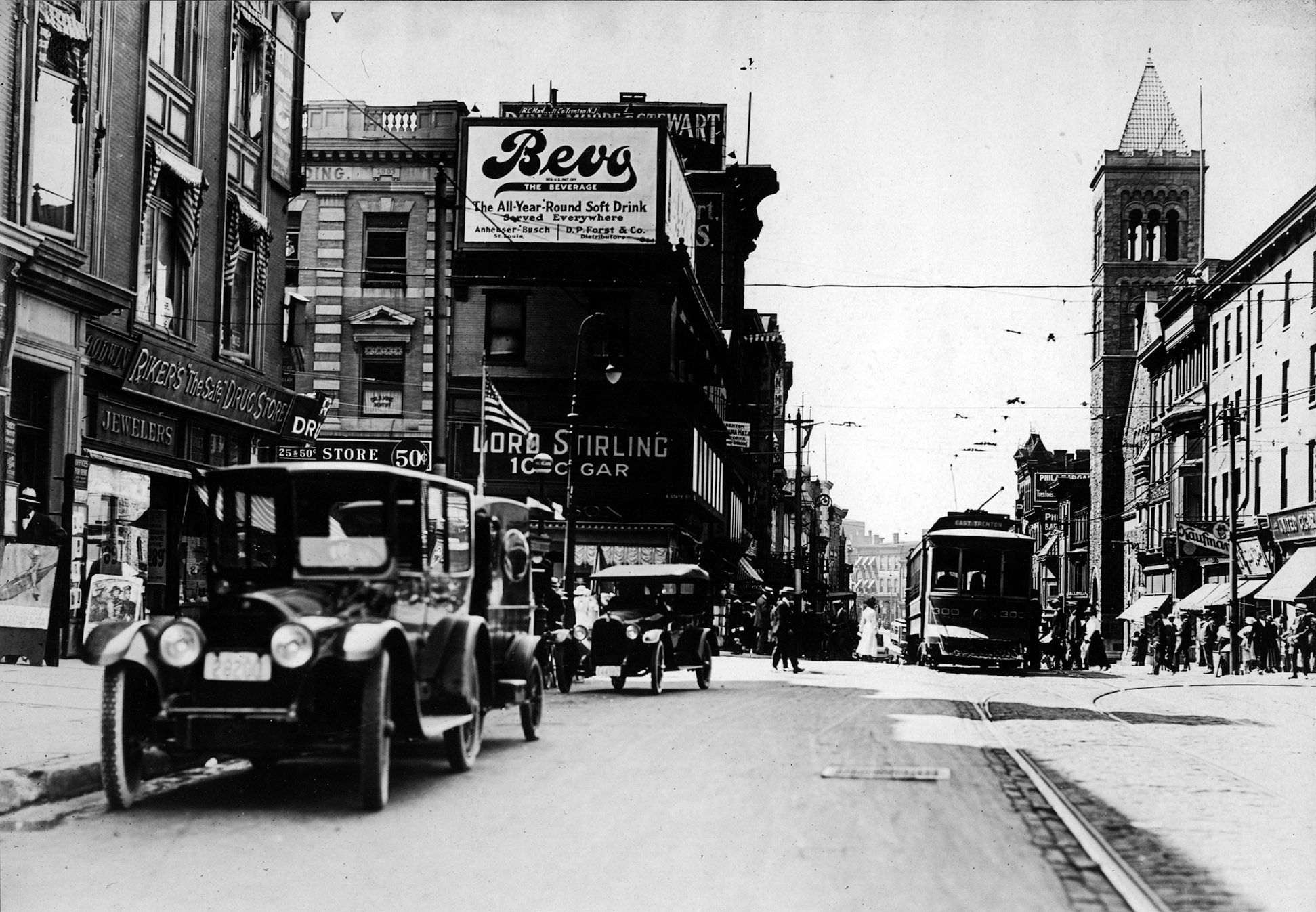 Trenton, New Jersey, 1918. Street scene at State & Broad Streets. Visible are period automobiles, streetcar, commercial building, billboard advertising "Bevo" (near-beer).